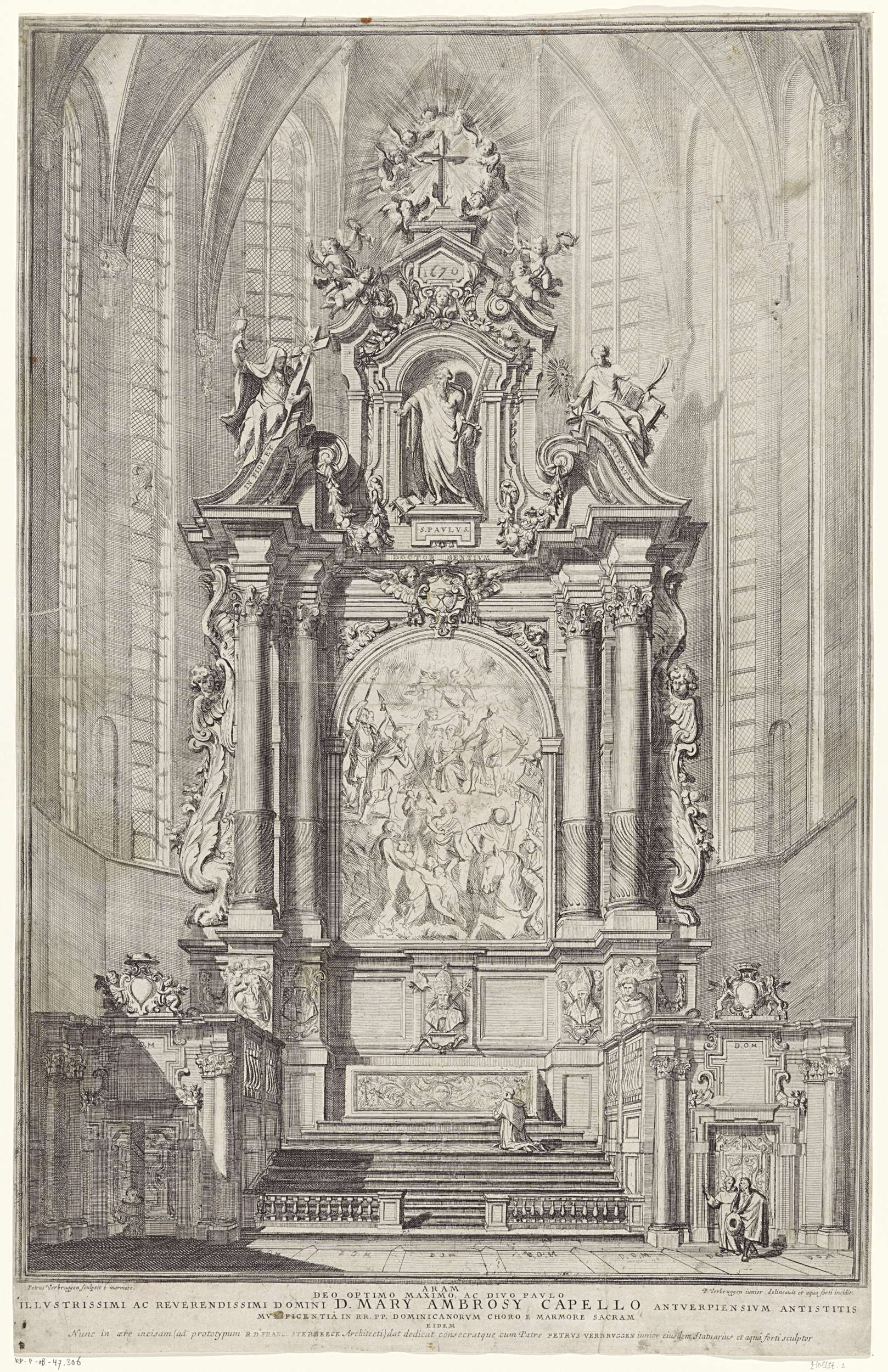 Design for Main Altar of the Church of St. Paul in Antwerp, etching and drawing by Pieter Verbrugghen, 603 x 387 mm, 1670, Rijksmuseum, Amsterdam